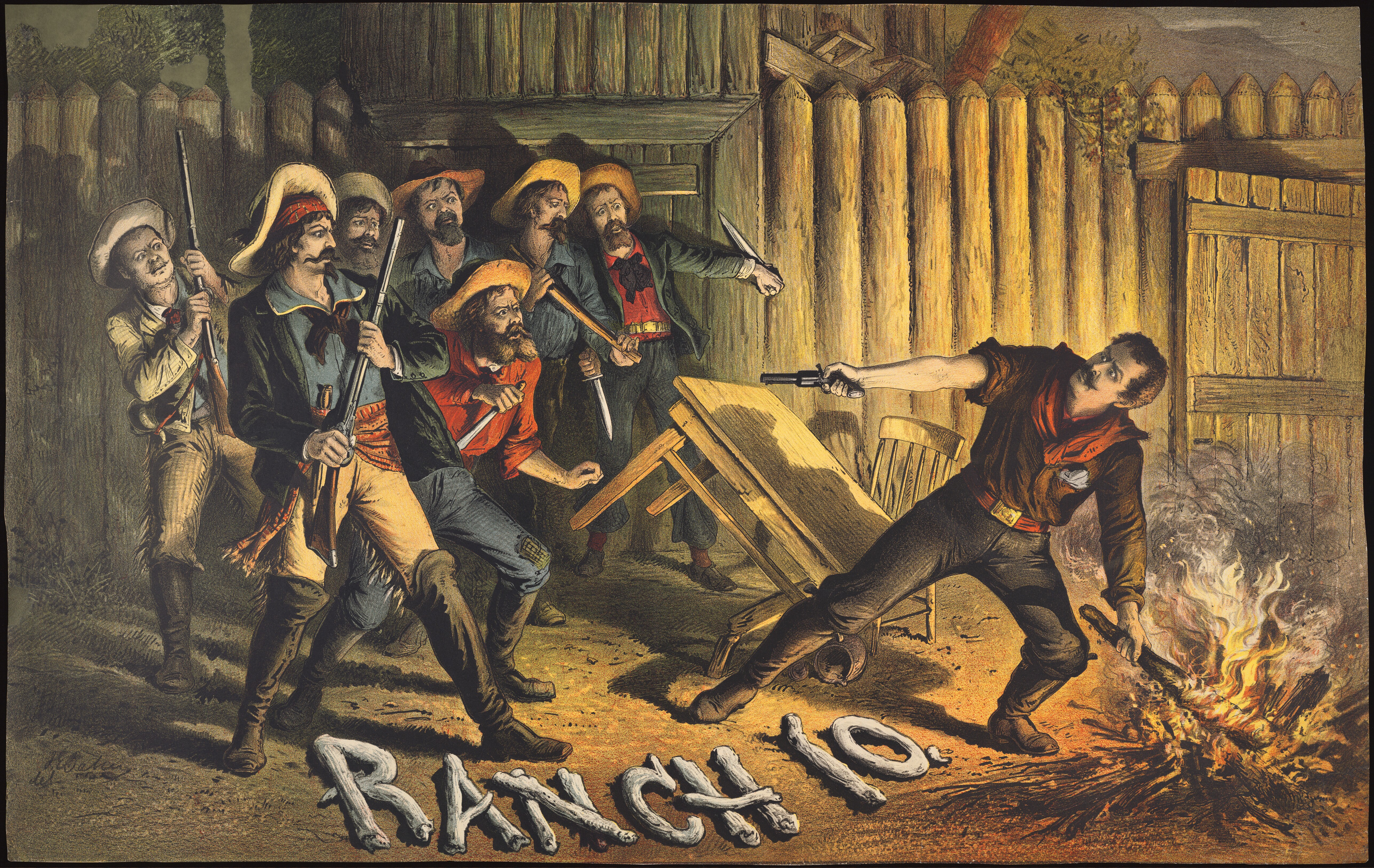 Lithograph poster advertising the play "Ranch 10," authored by Harry Meredith, which debuted at Haverlys Fourteenth Street Theatre in New York in August 1882. It was the first significant American play set on a cattle ranch. Image courtesy of the Yale Collection of Western Americana, Beinecke Rare Book & Manuscript Library, Yale University.[1]